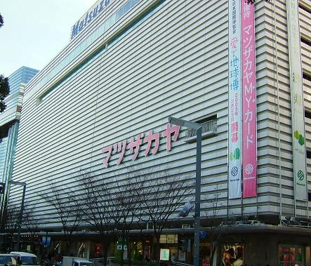 Taken from Hisaya-Odori park, Nagoya.